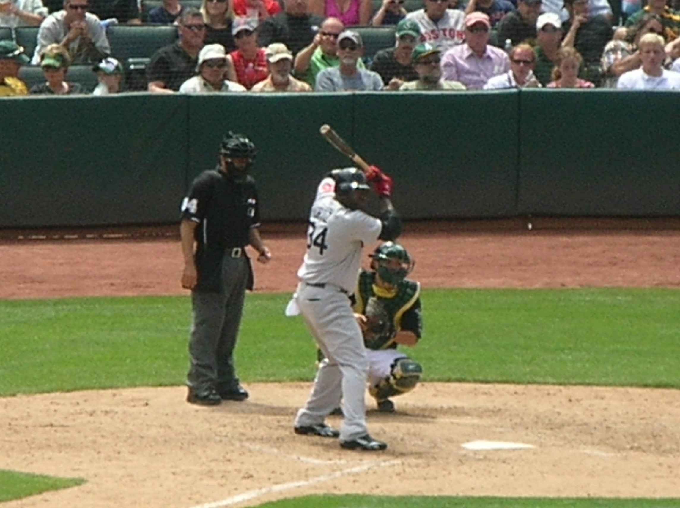 Boston Red Sox designated hitter David Ortiz at bat during an away game against the Oakland A's The A's won 6-4.